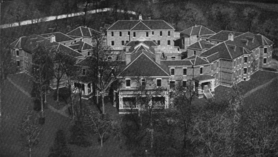 Illustration of the Central Indiana Hospital for the Insane from the Legislative and State Manual of Indiana, 1903, page 344